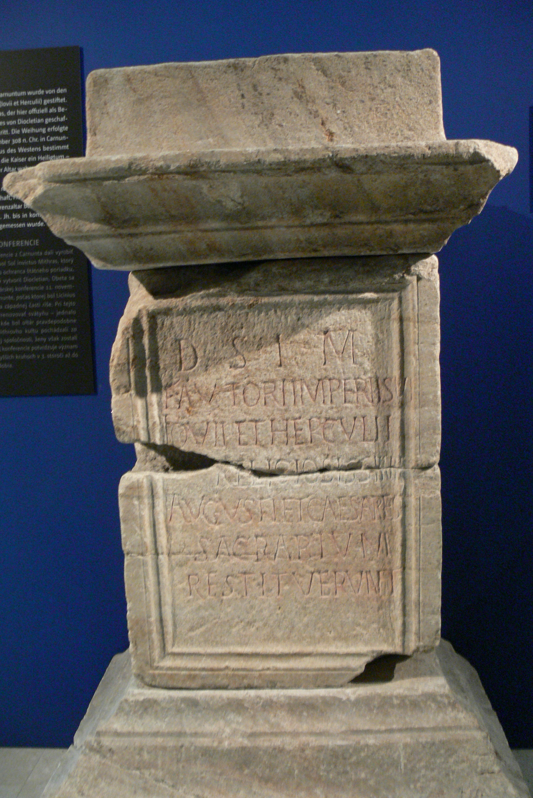 Museum Carnuntinum ( Lower Austria ). Altar ( 308 AD ) dedicated by the 4 Roman emperors Galerius, Licinius, Maximinus Daia and Constantin at their conference in Carnuntum to Mithras.